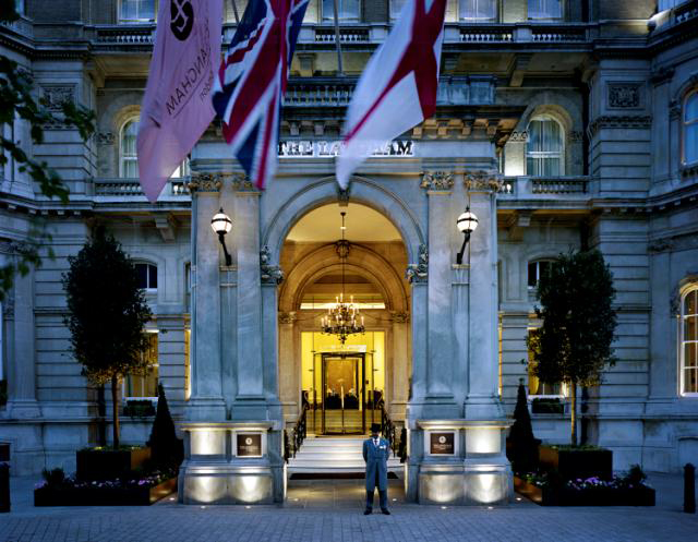 The Langham, London hotel exterior